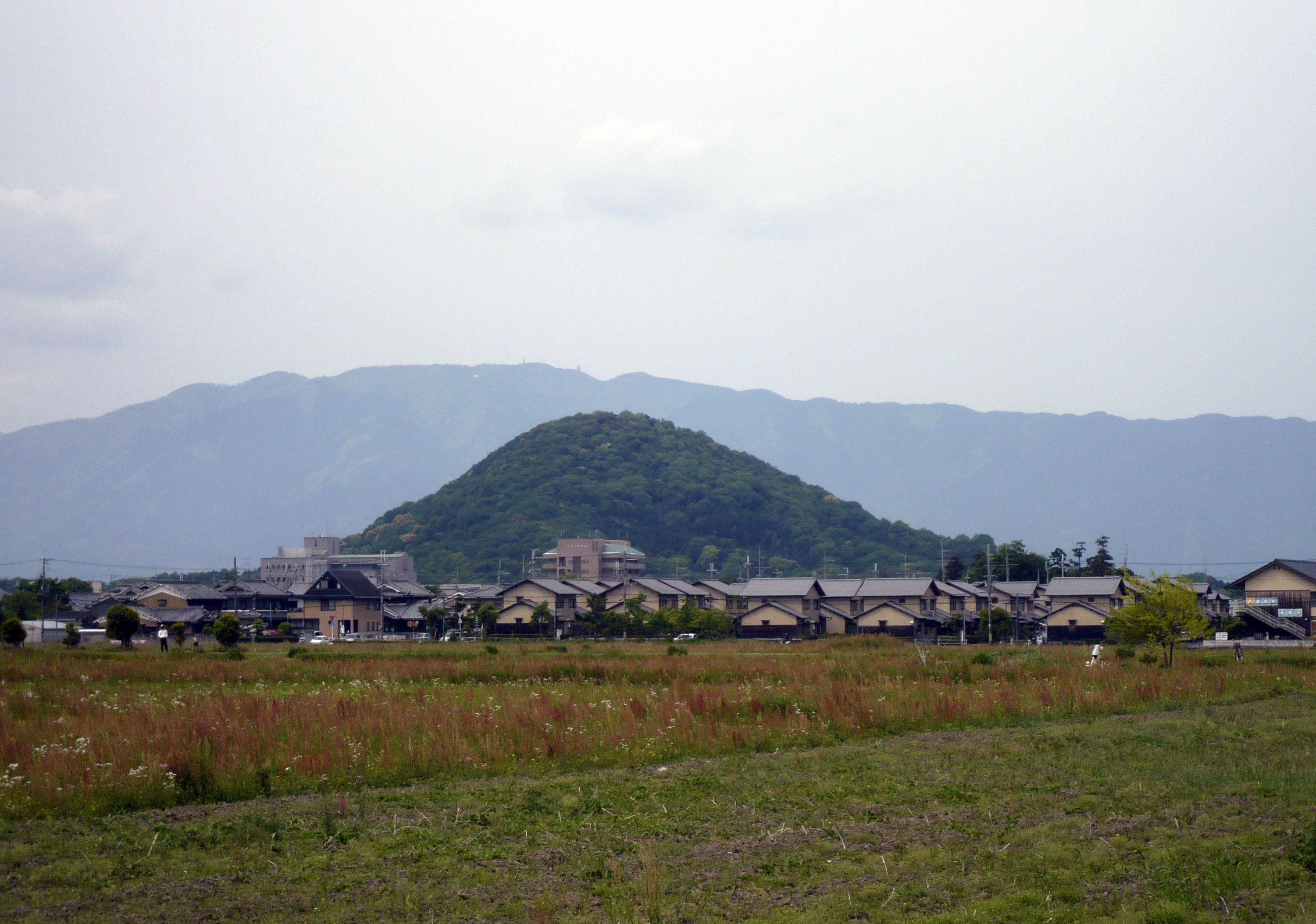 Mount Unebi viewed from Takadono-chō (Fujiwara-kyō ruins), Kashihara, Nara, Japan. Panasonic Lumix DMC-FX30